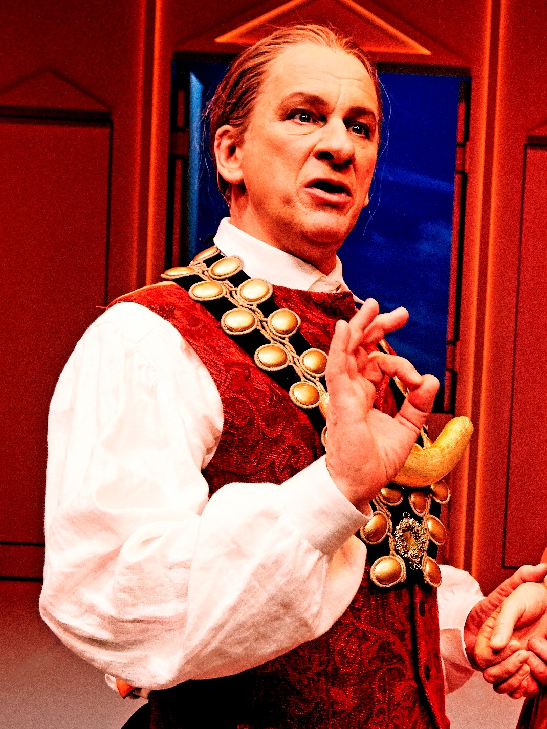 Henrik Koefoed in the Copenhagen theater Folketeatret's production of the play "Den politiske kandestøber" by Ludvig Holberg.